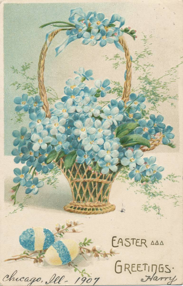 Forget-me-not postcard, circa 1907